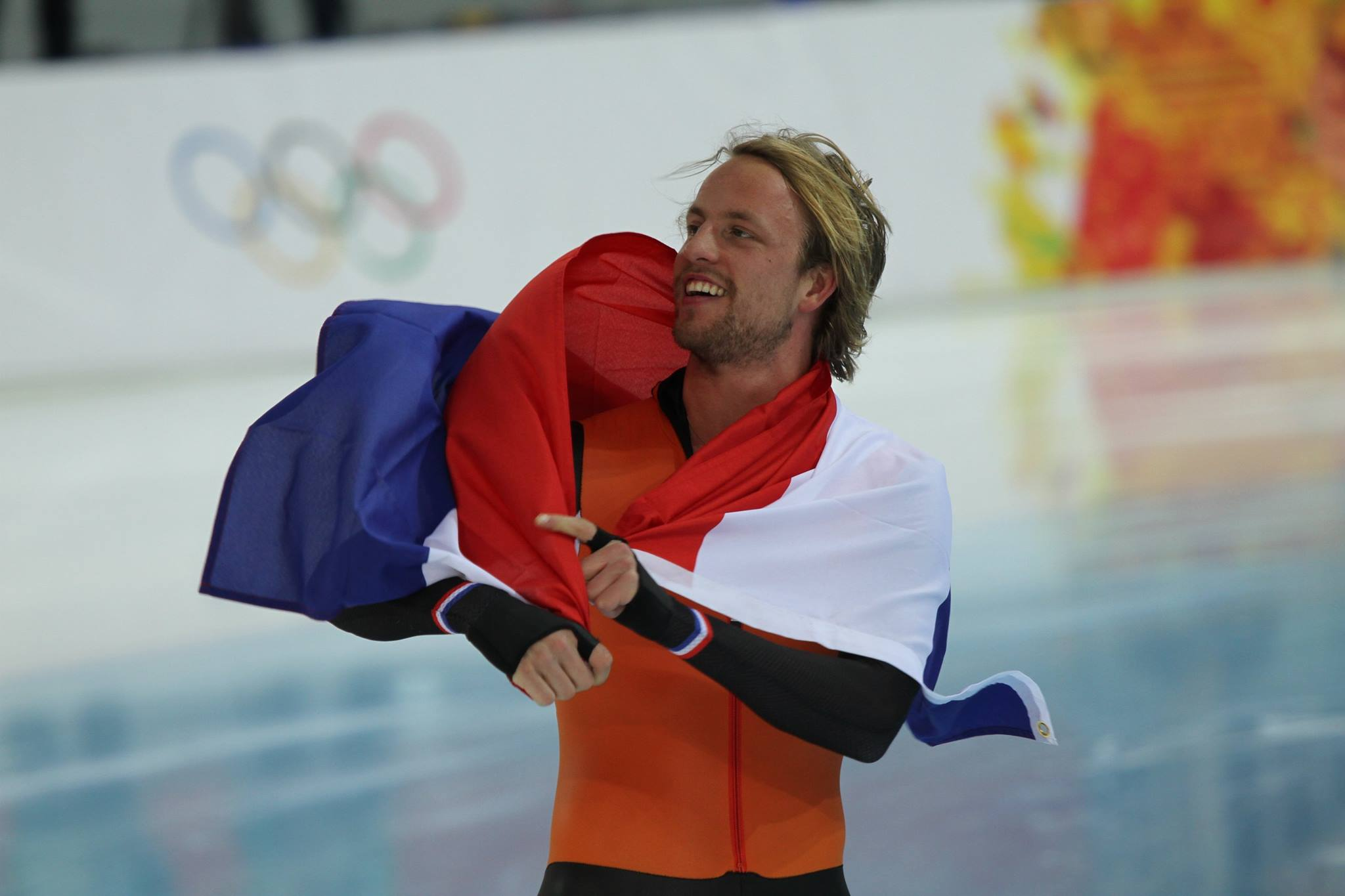 Men's 500m, 2014 Winter Olympics, Michel Mulder after winning gold